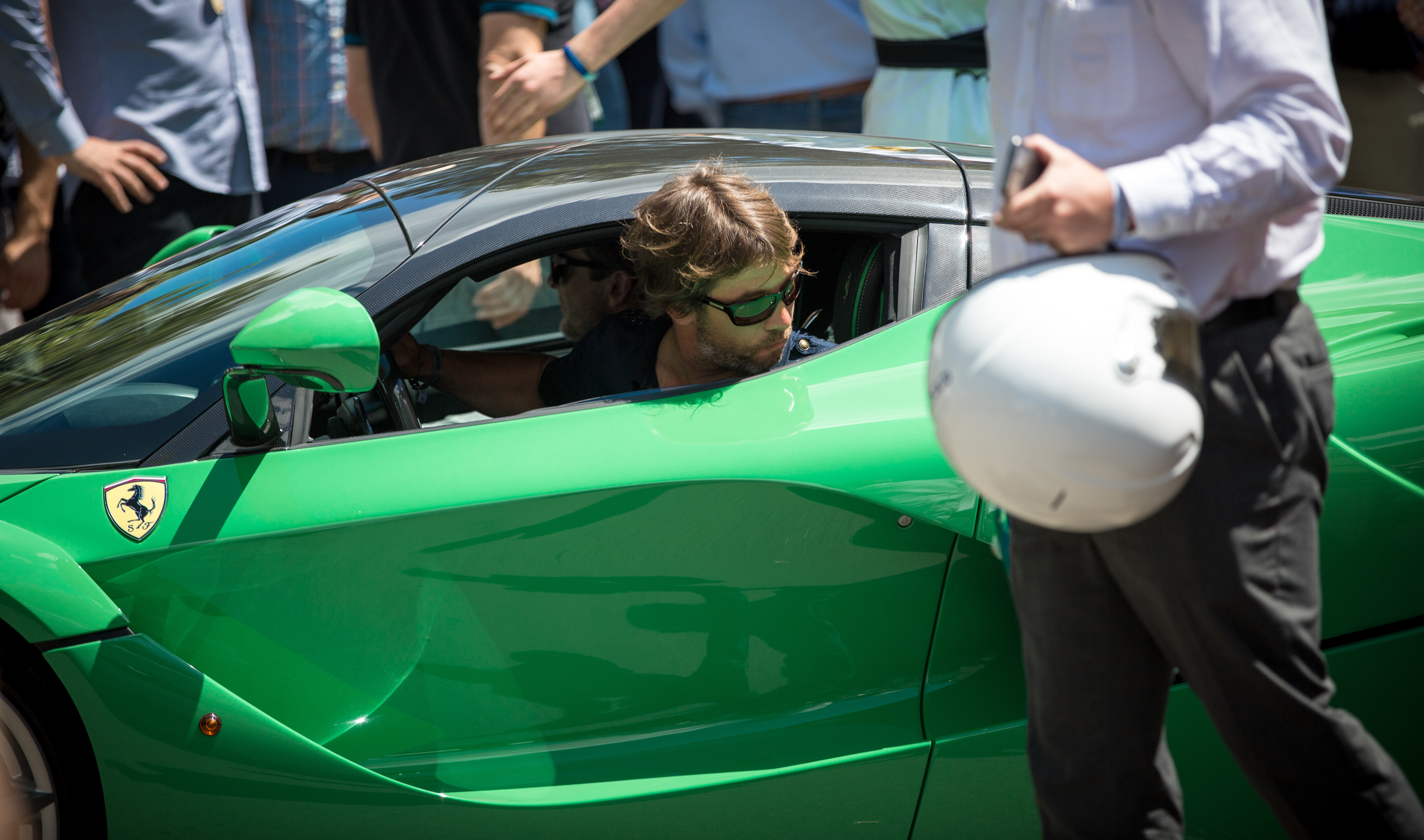 Jay Kay of Jamiroquai driving his green LaFerrari at the 2014 Goodwood Festival of Speed.